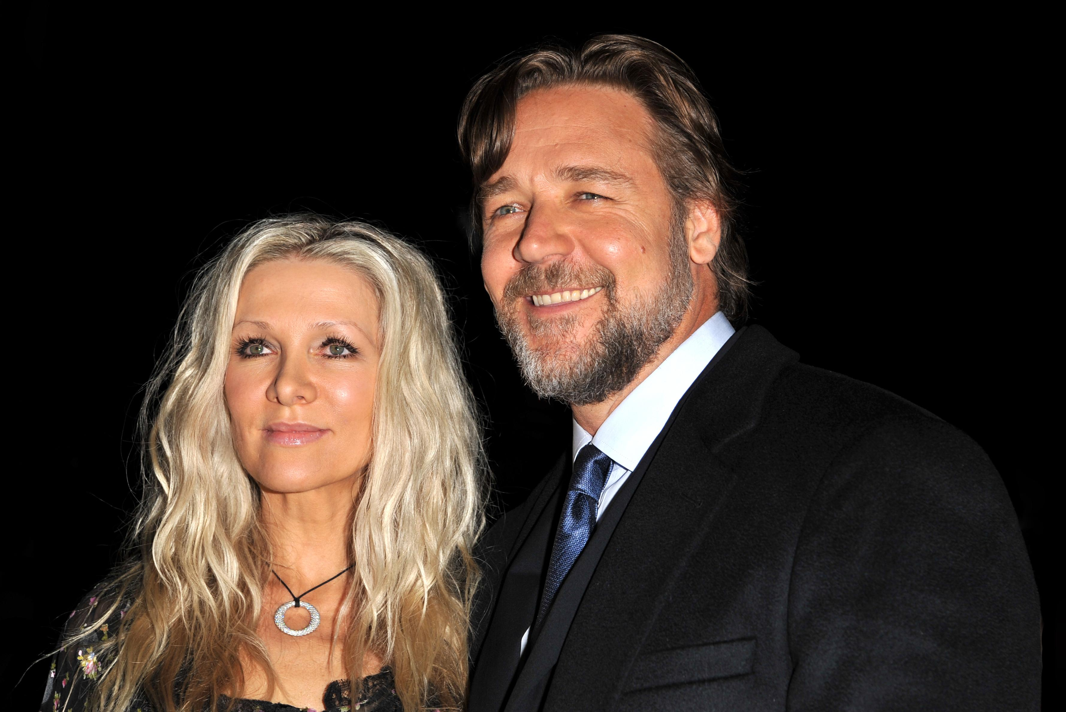 New Zealand born Australian Actor Russell Crowe and his wife Danielle Spencer at the 2011 Launch of The Star (originally called Star City) in Sydney Australia on September 14th, 2011